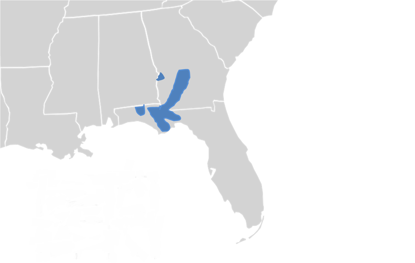 Range map of the Barbour's Map Turtle (Graptemys barbouri), based on C.H. Ernst and J.E. Lovich. (2009) "Turtles of the United States and Canada. 2nd Ed." Baltimore: Johns Hopkins University Press, pg 274